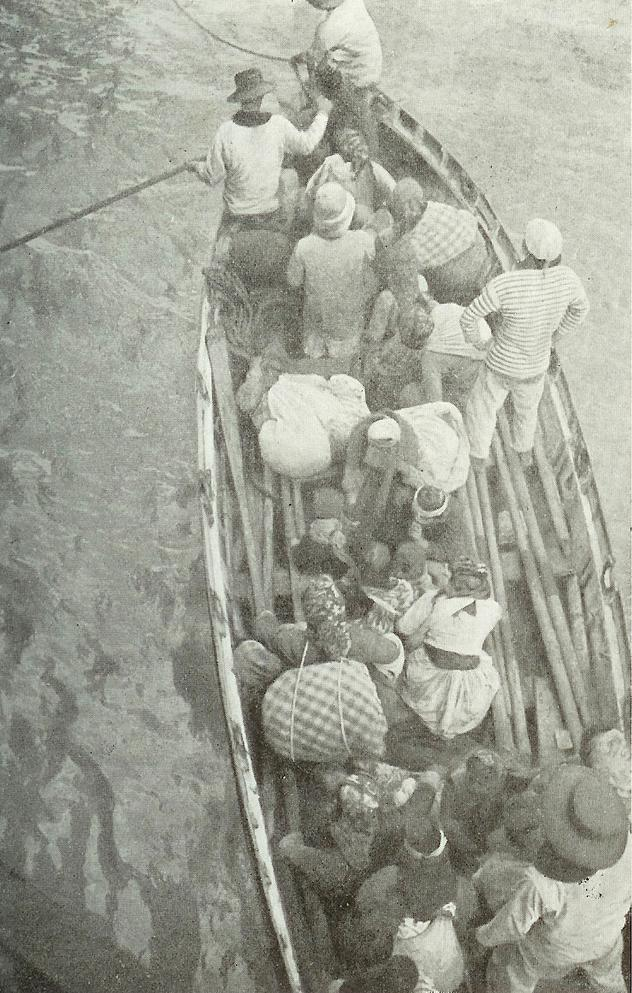 Armenian refugees rescued by the French Navy and embarking on battleships and cruisers before being evacuated to Port Said. September 1915.